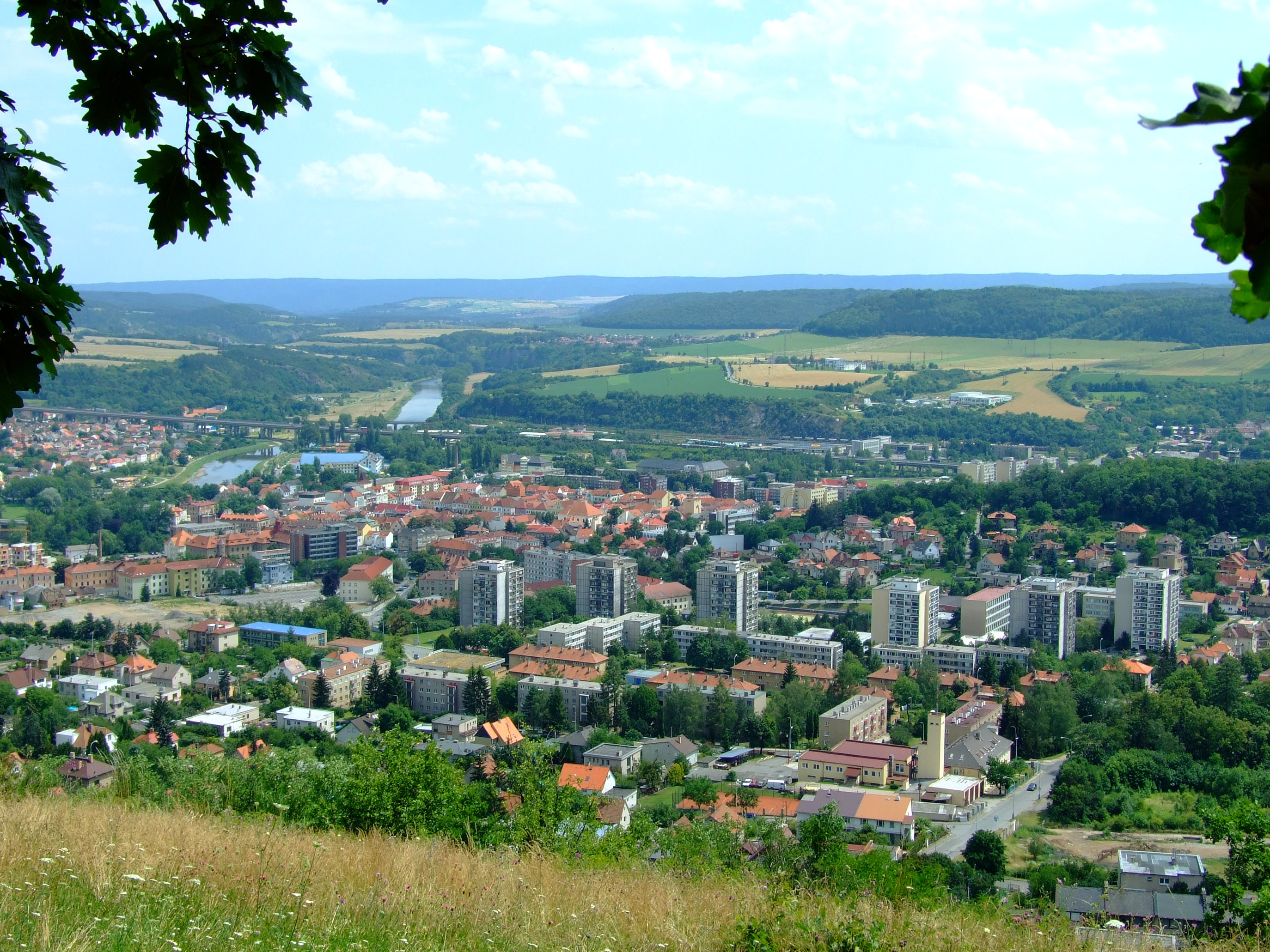 View of Beroun from Děd hill, Central Bohemian region, CZhelp